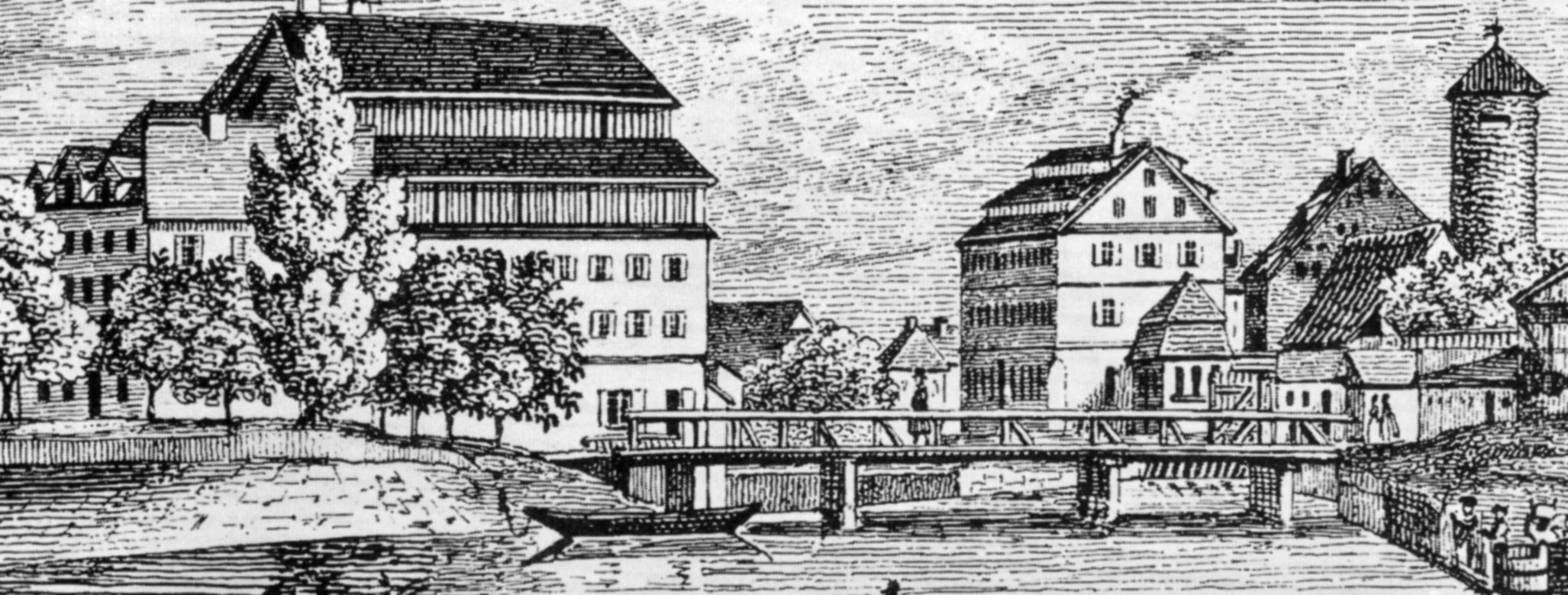 The two Heilbronn paper mills of Rauch (left) on the Hospitalgrün and Schaeuffelen (right, in the background). Lithography, ca. 1835